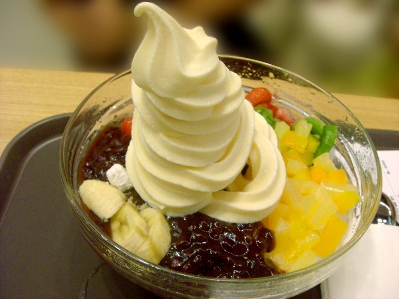 Patbingsu, a Korean shaved ice dessert made with red bean paste and fruits